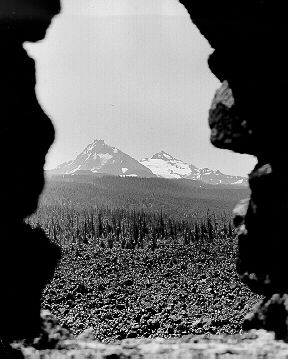 North Sister and Middle Sister from Dee Wright Observatory at the summit of McKenzie Pass in Oregon, looking south